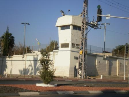 View of a guard tower in Ayalon Prison (also known as Ramla Prison), located in central Israel